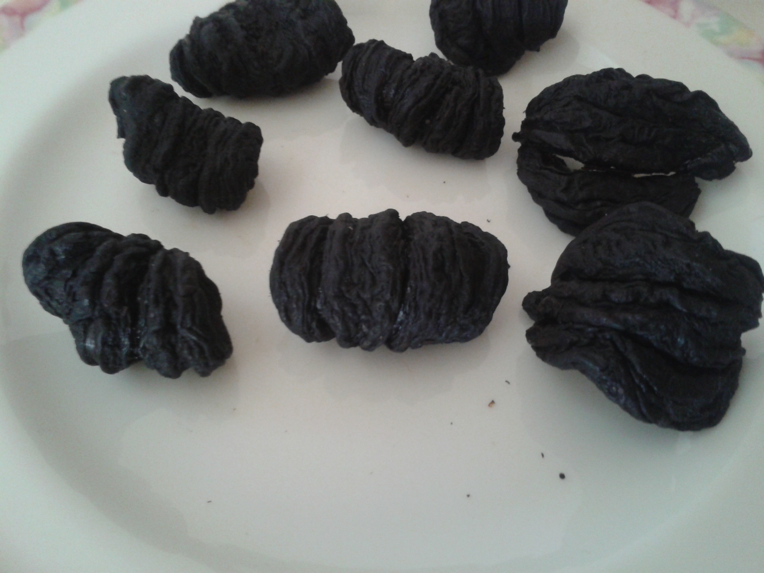 Garcinia gummi-gutta , Gambooge